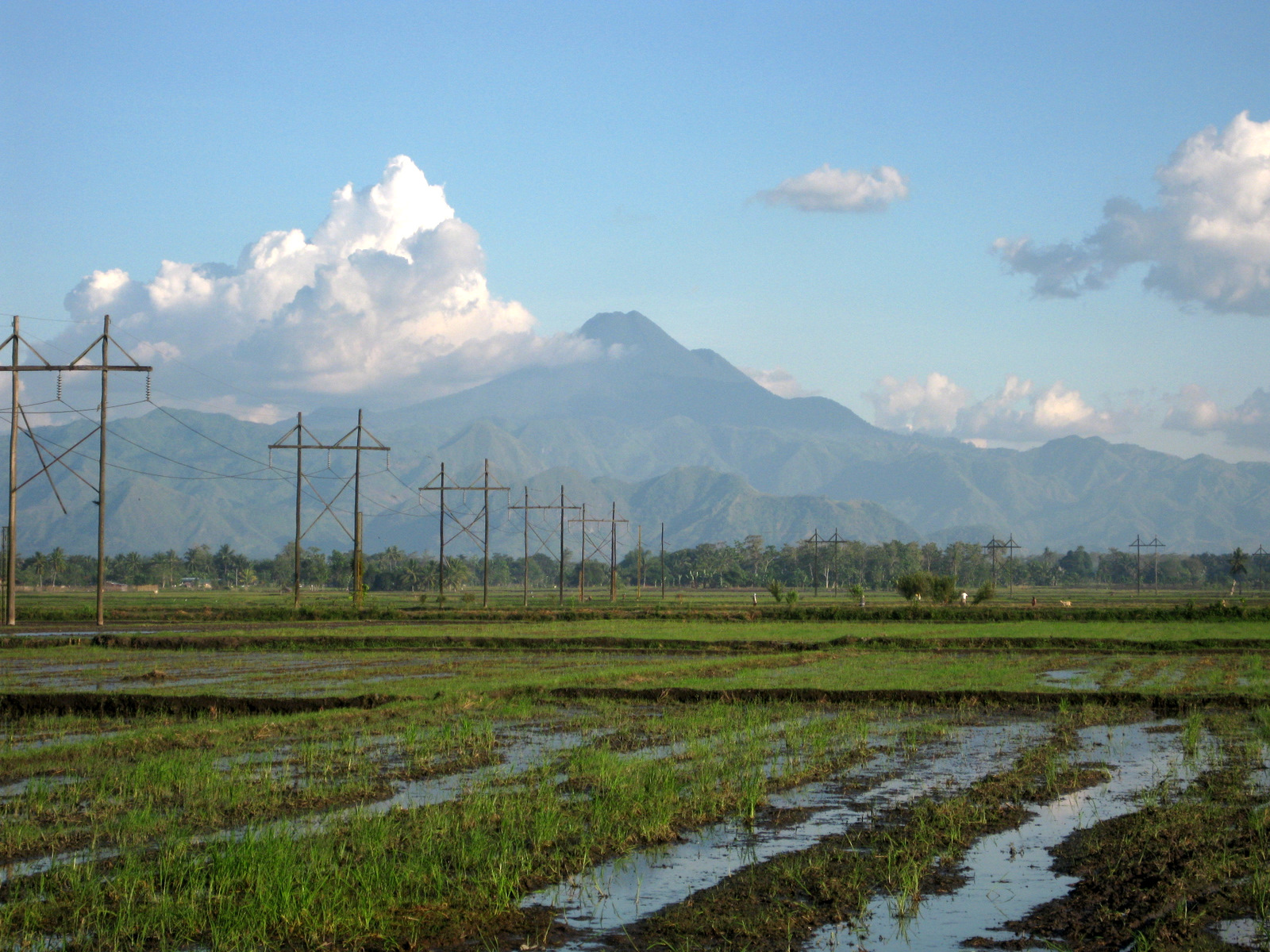 Mount Matutum, South Cotabato